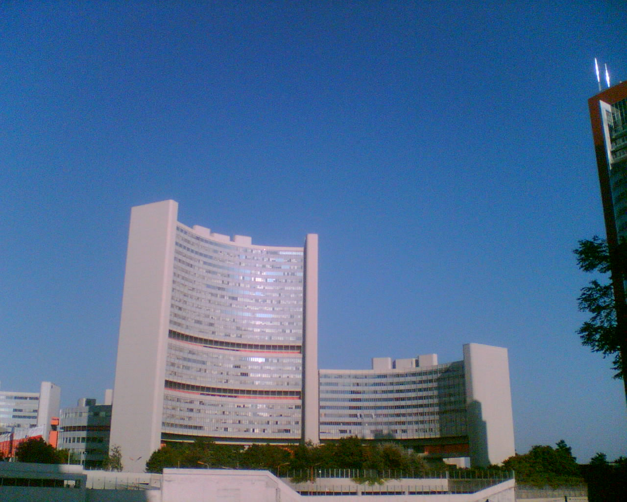 Austria, Vienna, Vienna International Centre